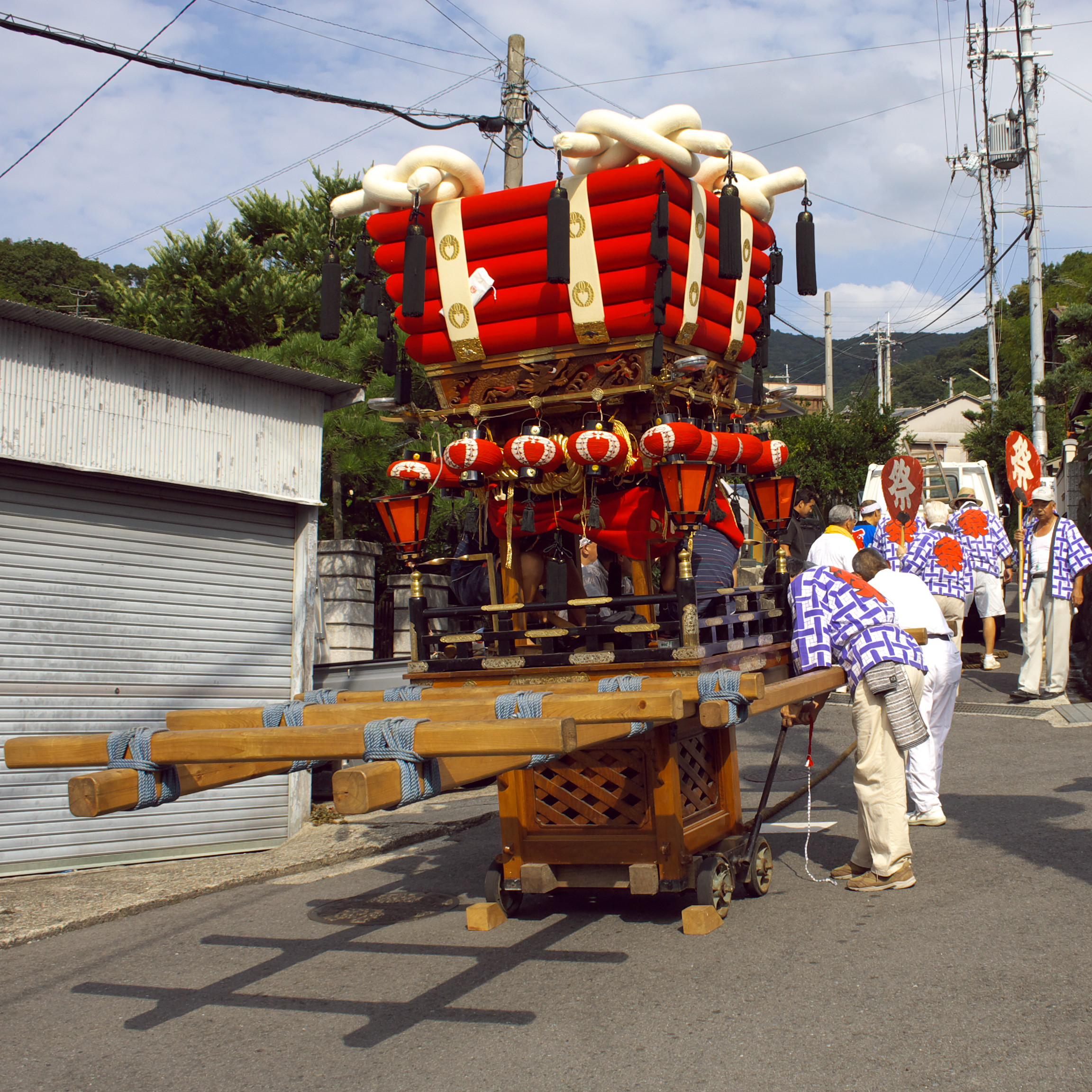 A "Futon-daiko" of Zushidani Area in Higashi-Osaka City, Osaka, JAPAN